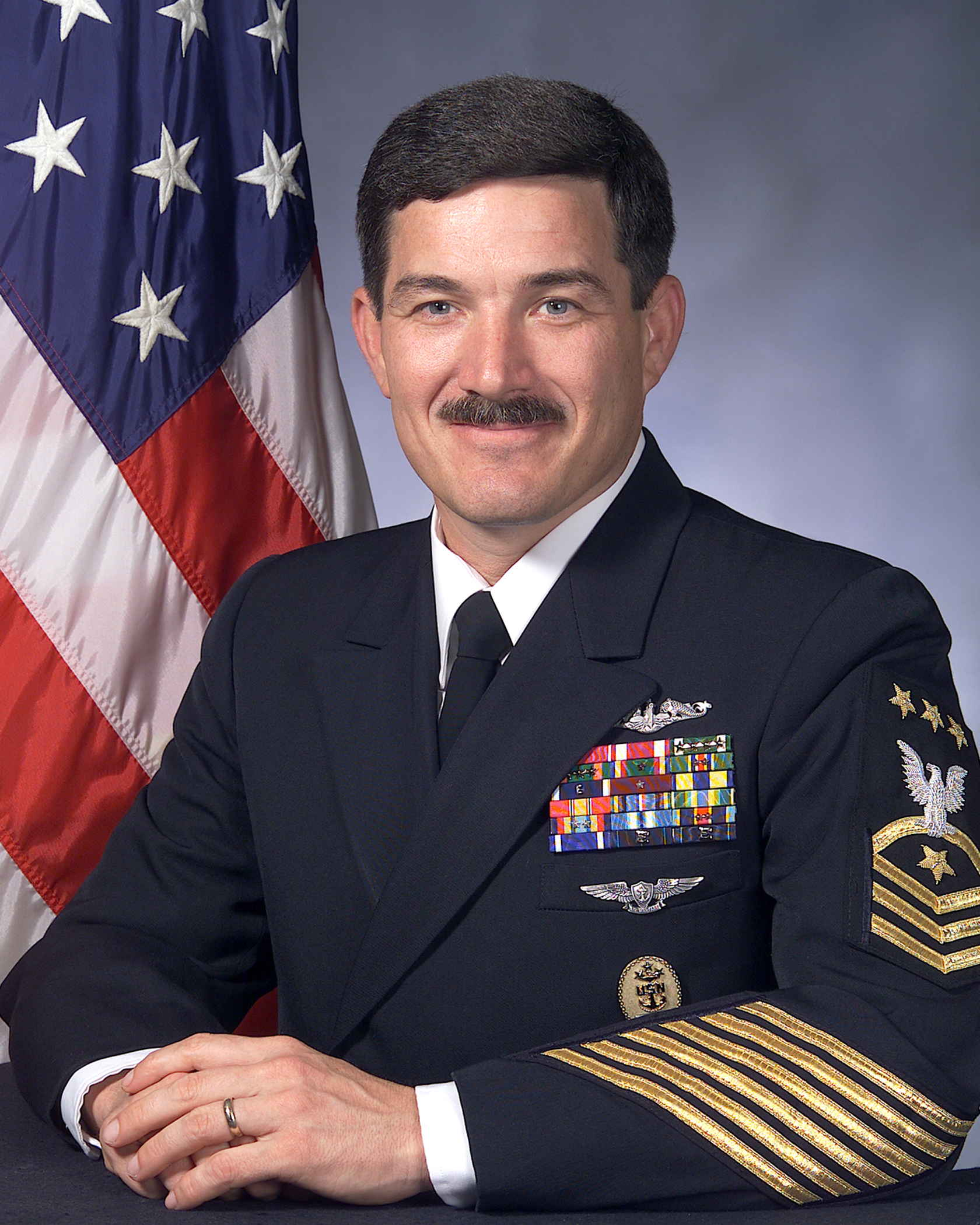 Official Portrait of Master Chief Petty Officer of the Navy (SS/AW) Terry D. Scott -- Scott is the 10th Master Chief Petty Officer of the Navy (MCPON). The Master Chief Petty Officer of the Navy (MCPON) is the senior enlisted person in the Navy. MCPON serves as the senior enlisted leader of the Navy, and as an advisor to the Chief of Naval Operations and to the Chief of Naval Personnel in matters dealing with enlisted personnel and their families. MCPON is also an advisor to the many boards dealing with enlisted personnel issues; is the enlisted representative of the Department of the Navy at special events; may be called upon to testify on enlisted personnel issues before Congress; and, maintains a liaison with enlisted spouse organizations. U.S. Navy photo (RELEASED)